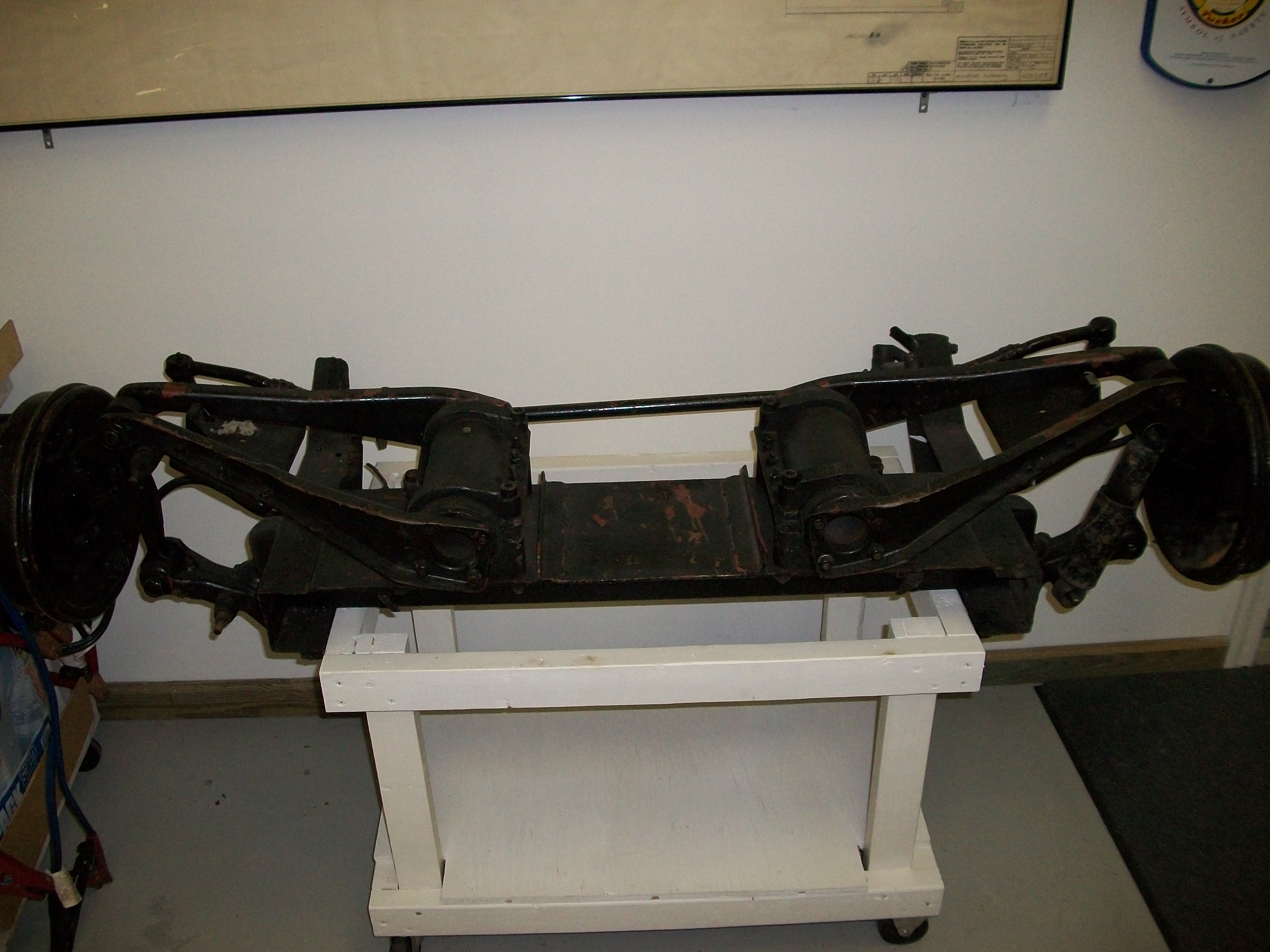 Rubber Torsion Tube 2-style Front Suspension installed on cars #1026-on.